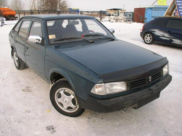 Svjatogor